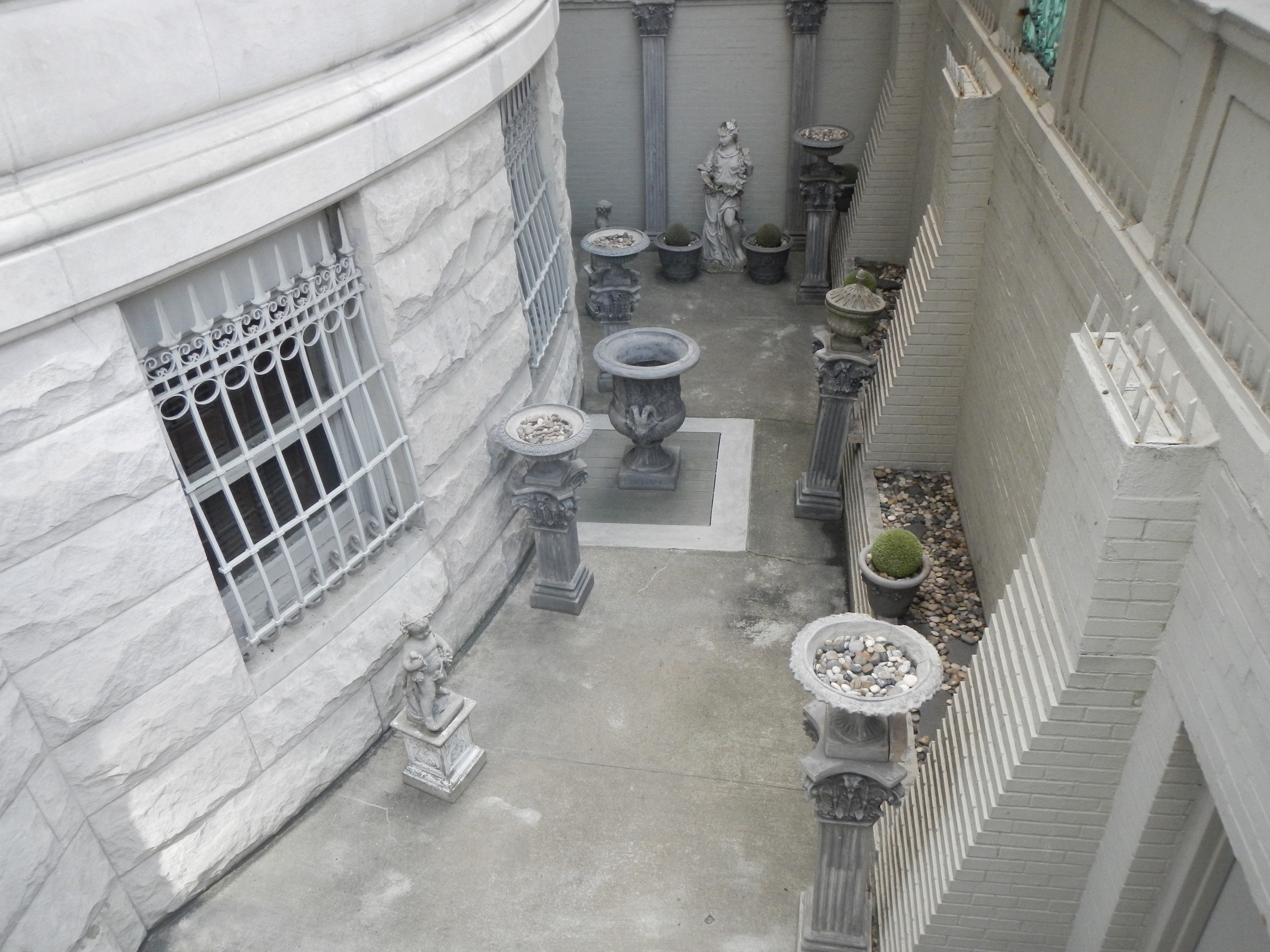 Looking west into moat or sunken patio between building (left) and sidewalk on a partly sunny midday.